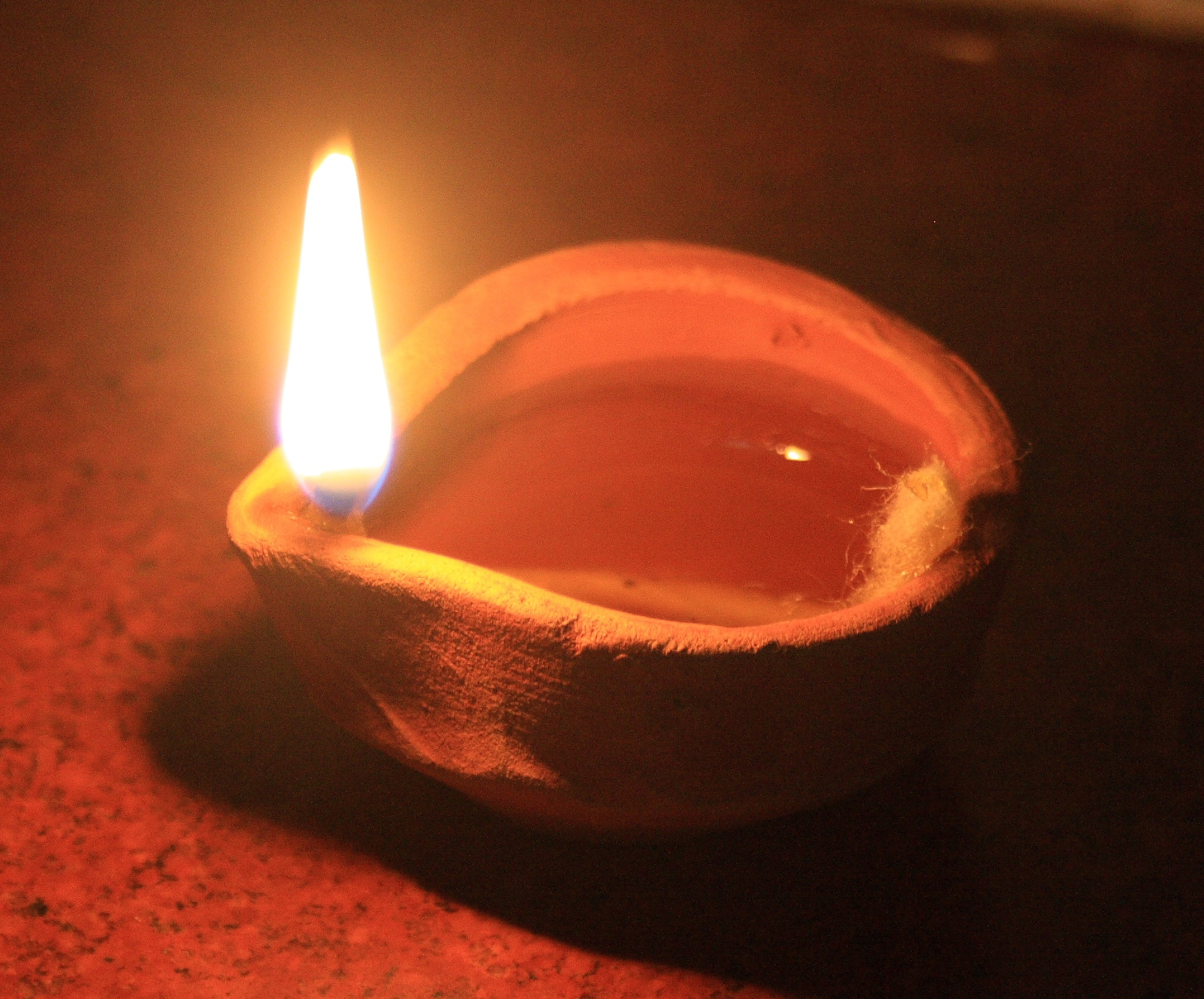 An oil lamp made of clay used for the diwali festival in India (Haryana).